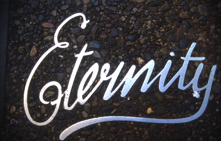 Eternity sign commemorating the work of Arthur Stace, Town Hall Square, Sydney